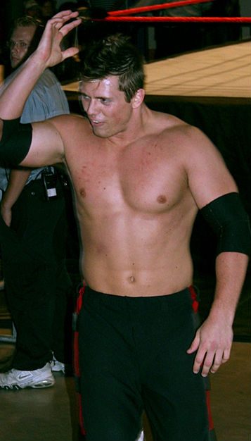 Mike "The Miz" Mizanin during a WWE house show held in Kitchener, Ontario, Canada on January 15, 2005.